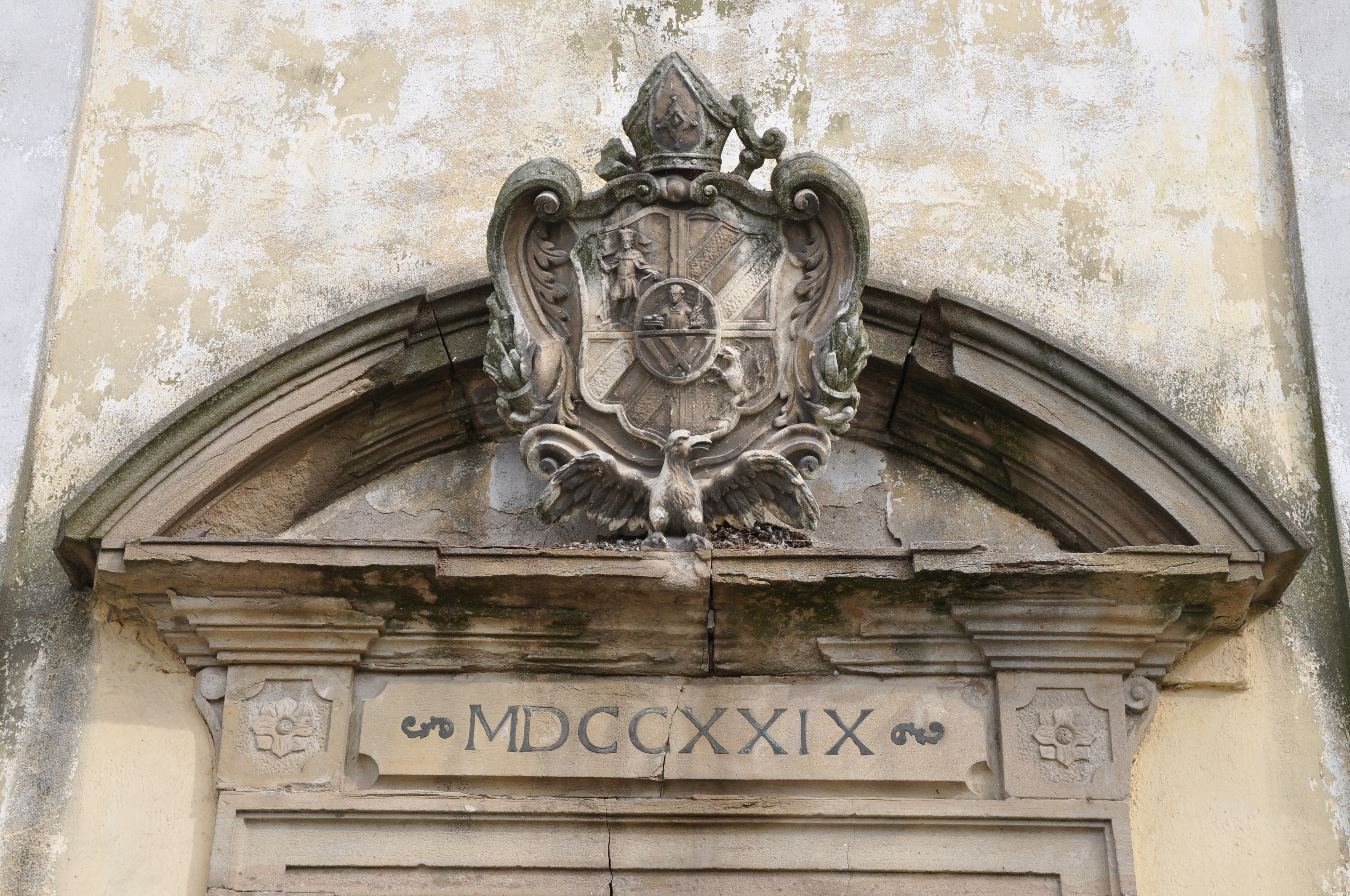 Coat of arms of abbot of the Louka Monastery dated 1729, i.e. abbot Vincenz Wallner (1712 - 1729) or Anton Nolbeck (1729 – 1745). Church in Miroslav, Czech Republic.